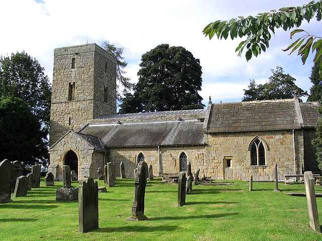 The church at Bolam Taken on a fine September afternoon.